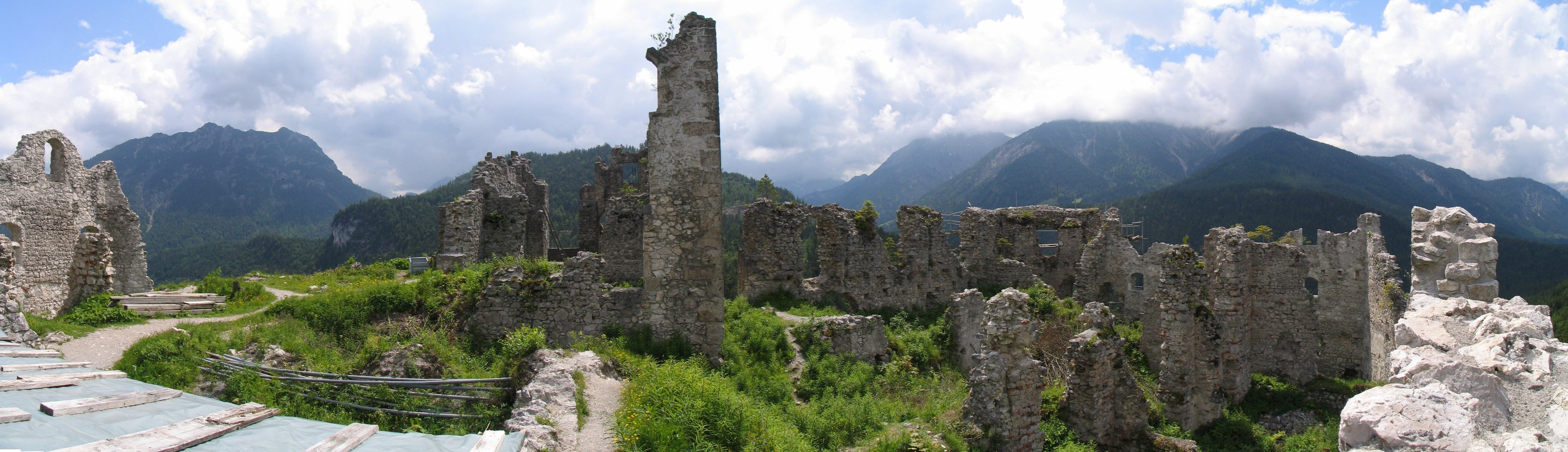 Castle Ehrenberg near Reutte in Tyrol, Austria